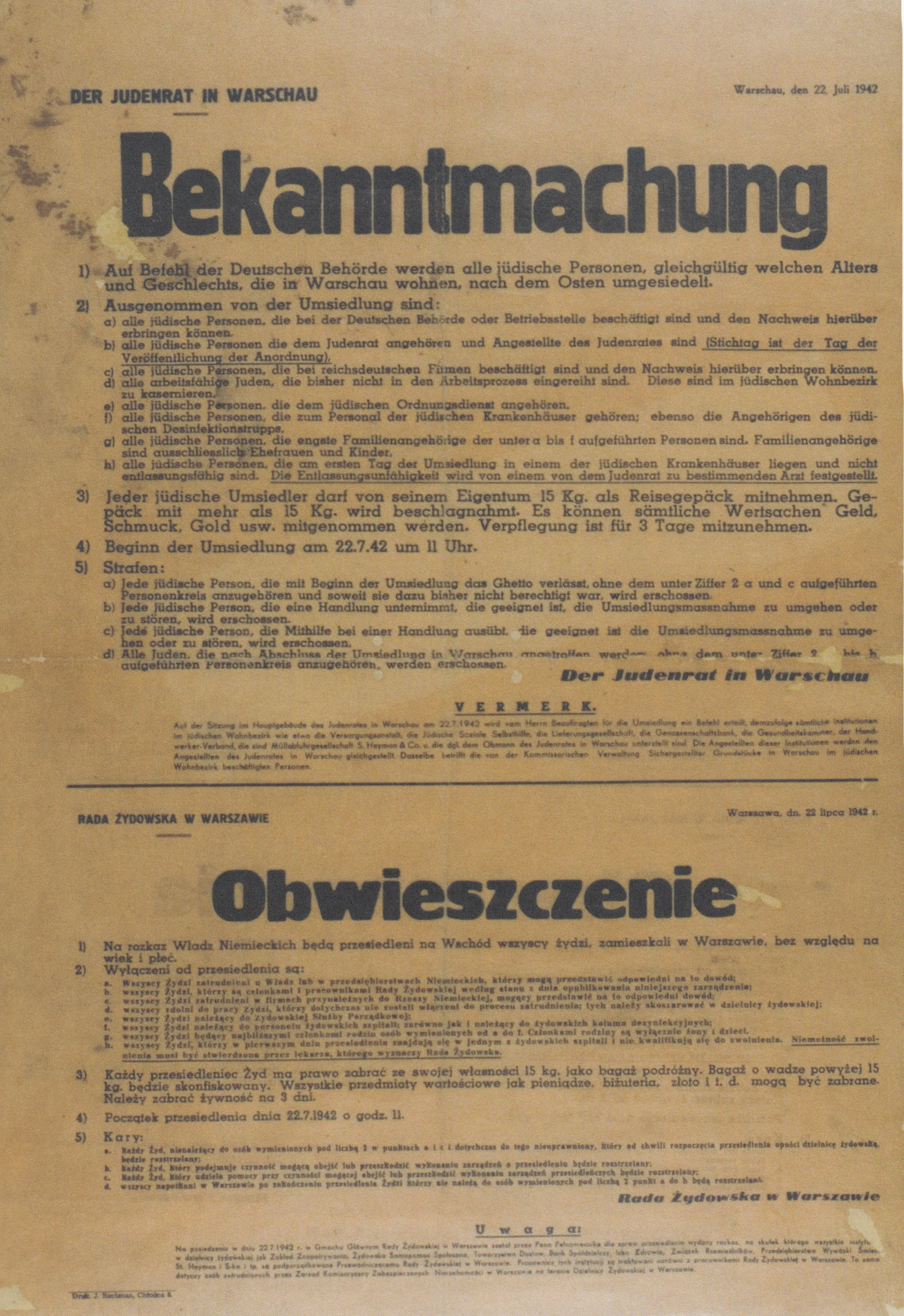 Grossaktion Warsaw (1942) poster